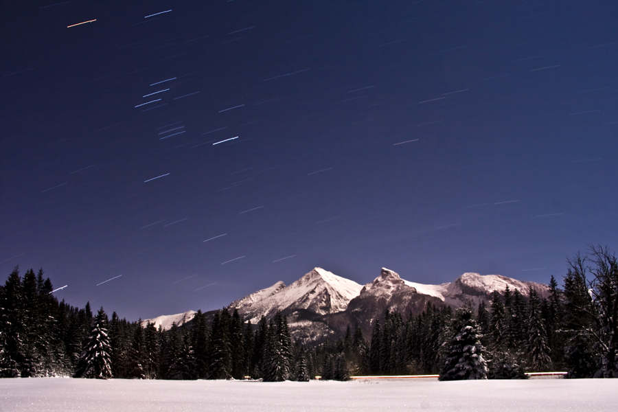 Jurgów